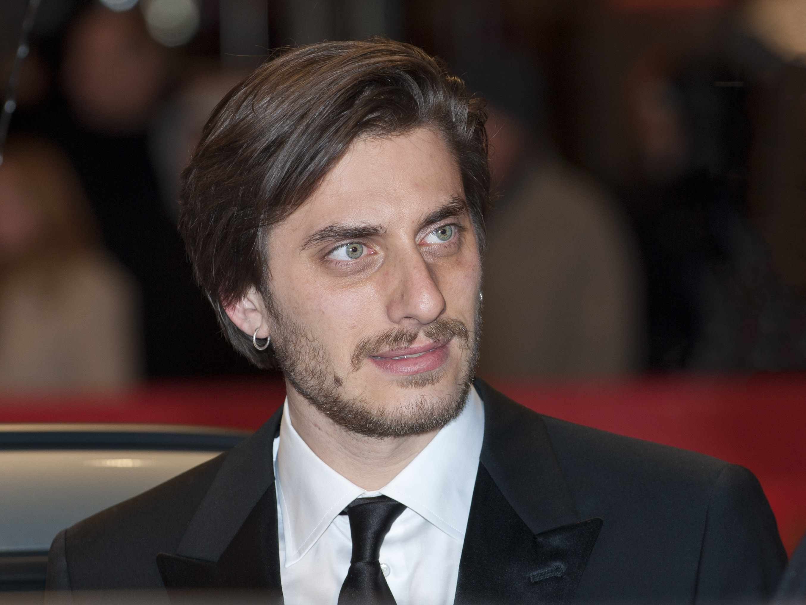 Italian actor Luca Marinelli after the European Shooting Stars Award Ceremony